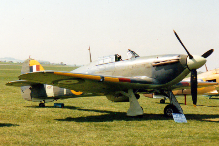 Photographed at the Spitfire 60th Anniversary Airshow, Duxford, 1996. Scanned print. Photo ref; 1996/Spitfire 60th-Duxford/082